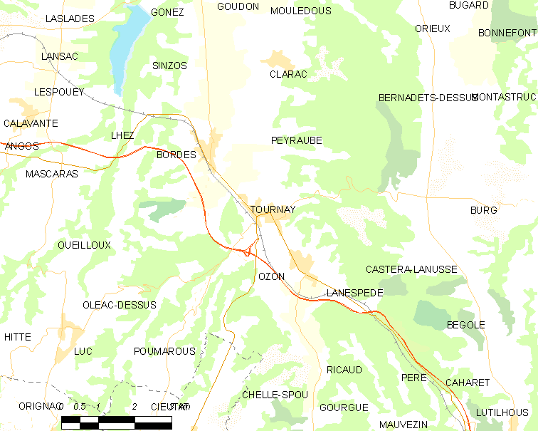 Map of French municipality